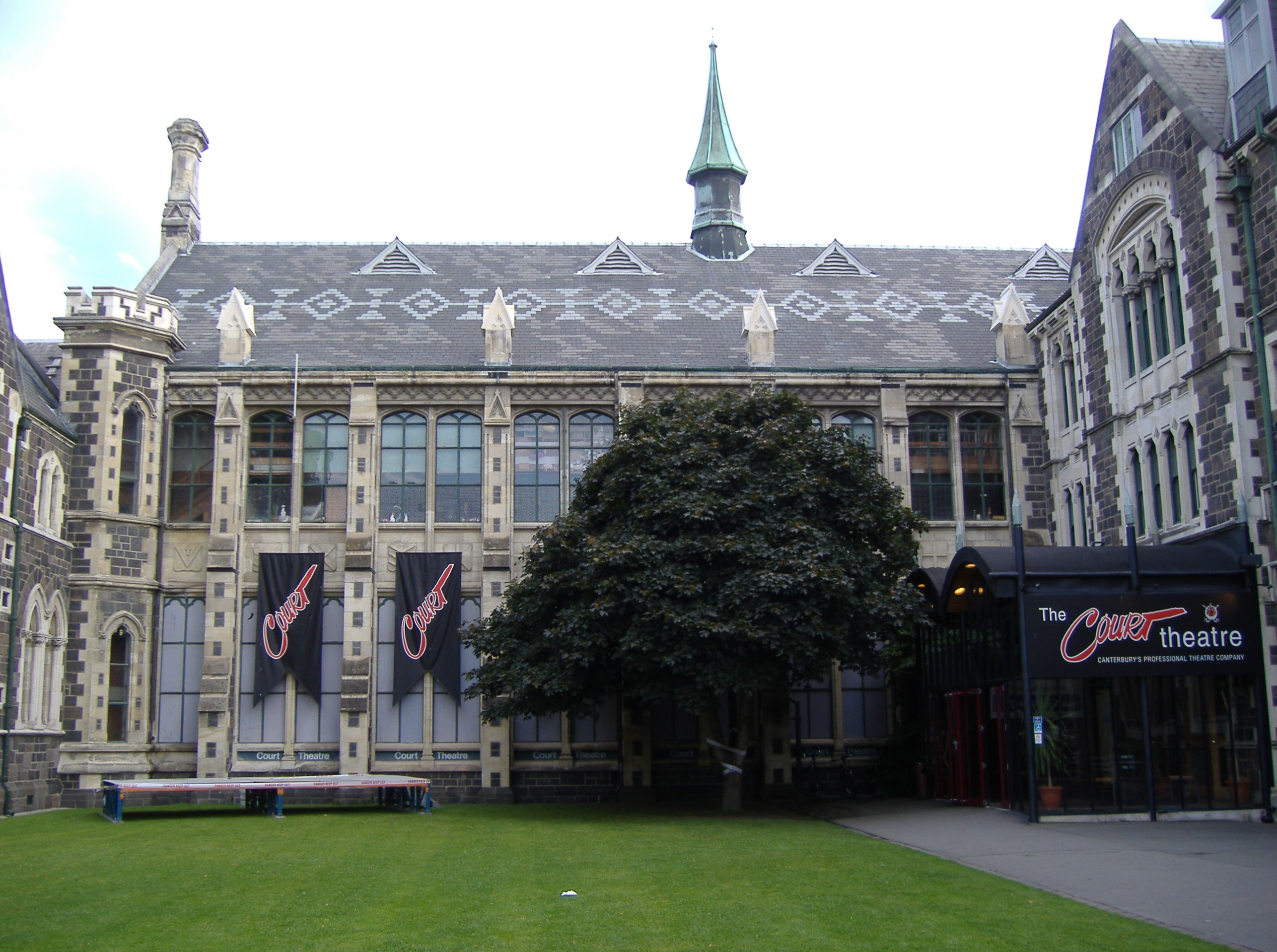 The Court Theatre is housed in part of what was the University of Canterbury, founded in 1873. This building was built in 1923 as the Engineering Extension. The theatre moved into it in 1976. The Feb 2011 earthquake damage is apparently not as bad as feared, and there's hope that all of the buildings in this complex can be saved. Christchurch NZ.